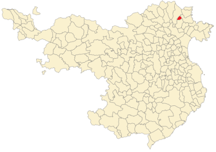 Vilamaniscle